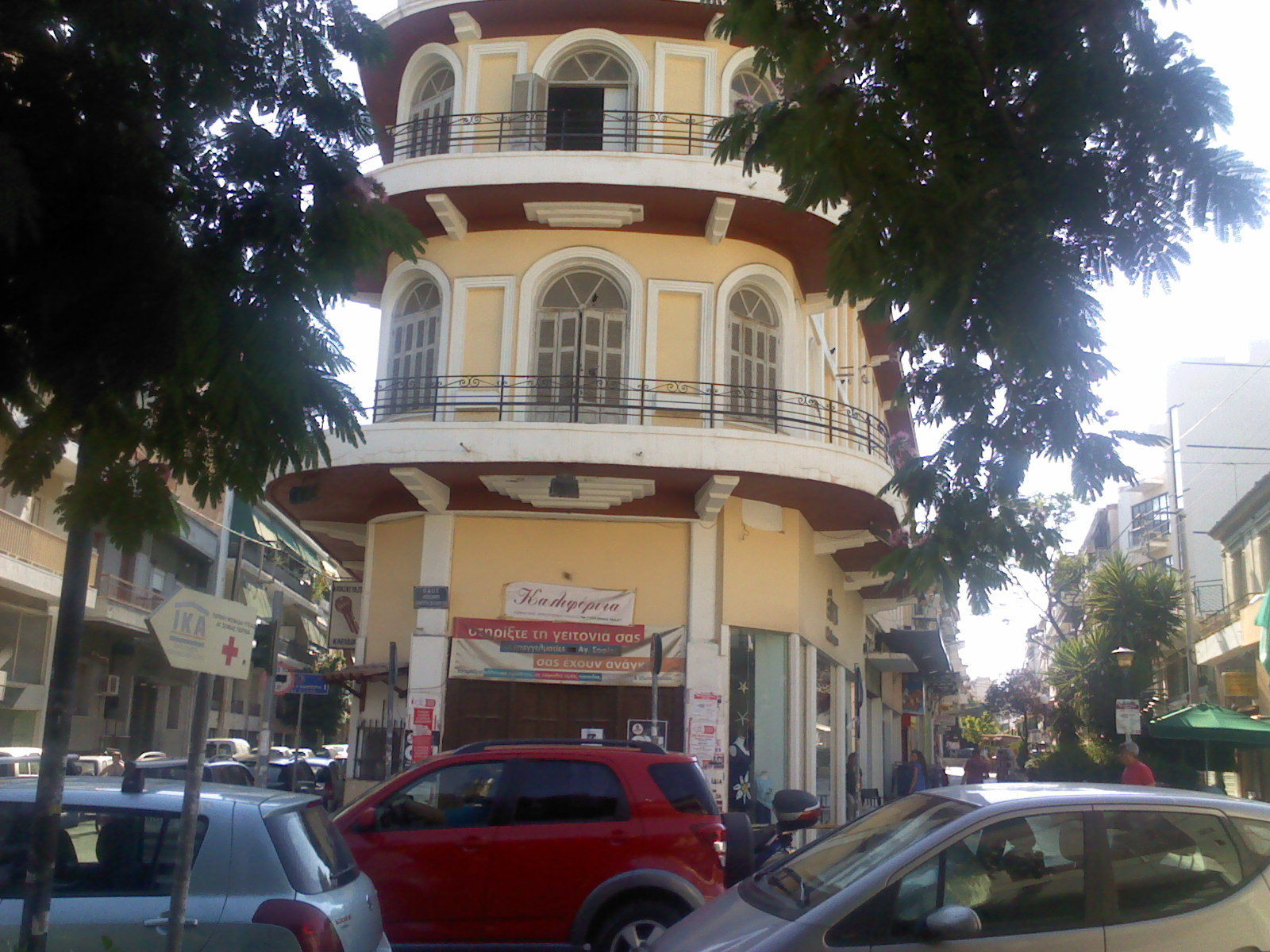 Cine Kalifornia